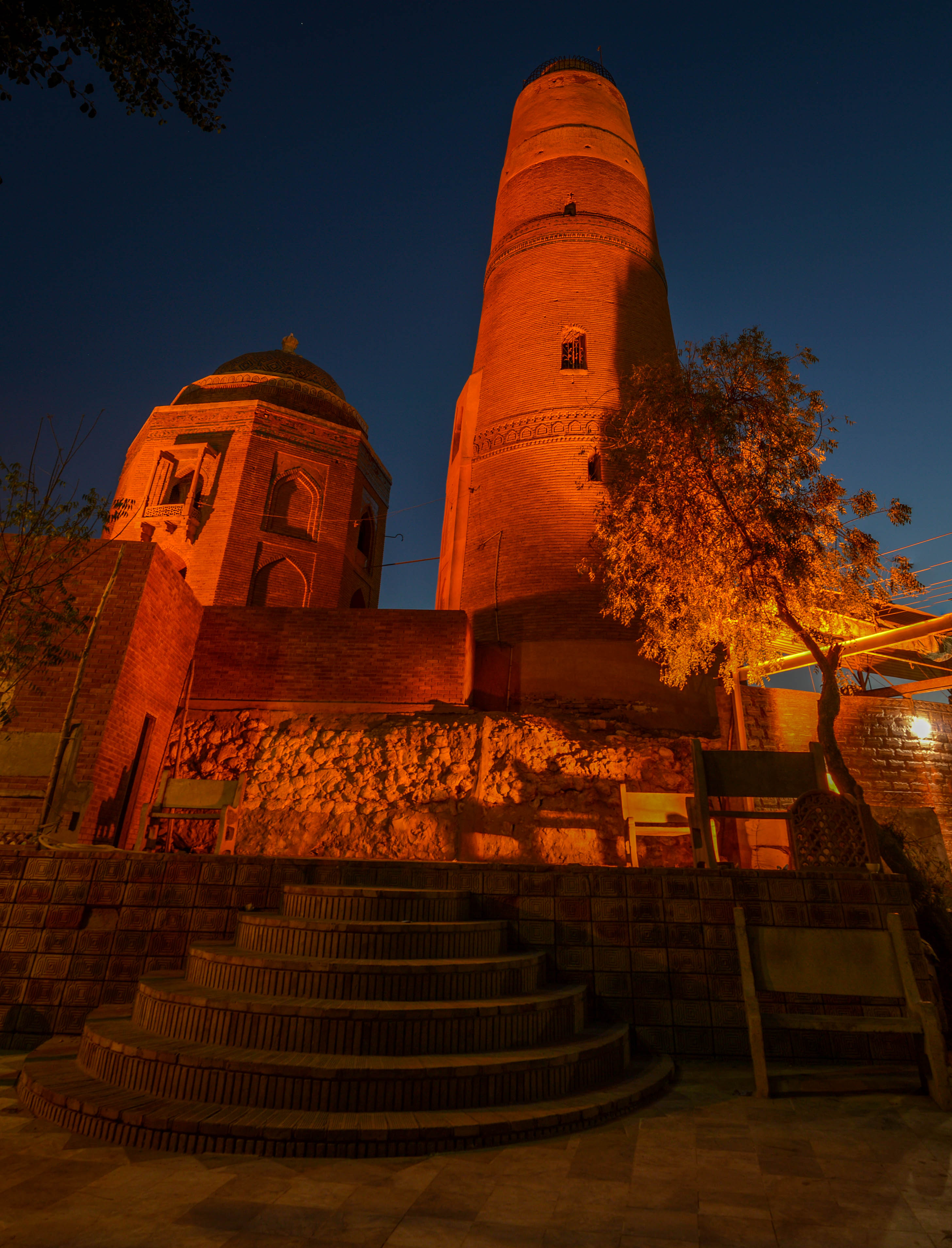 Mir Masum's Minar and tomb This is a photo of a monument in Pakistan identified as the SD-56